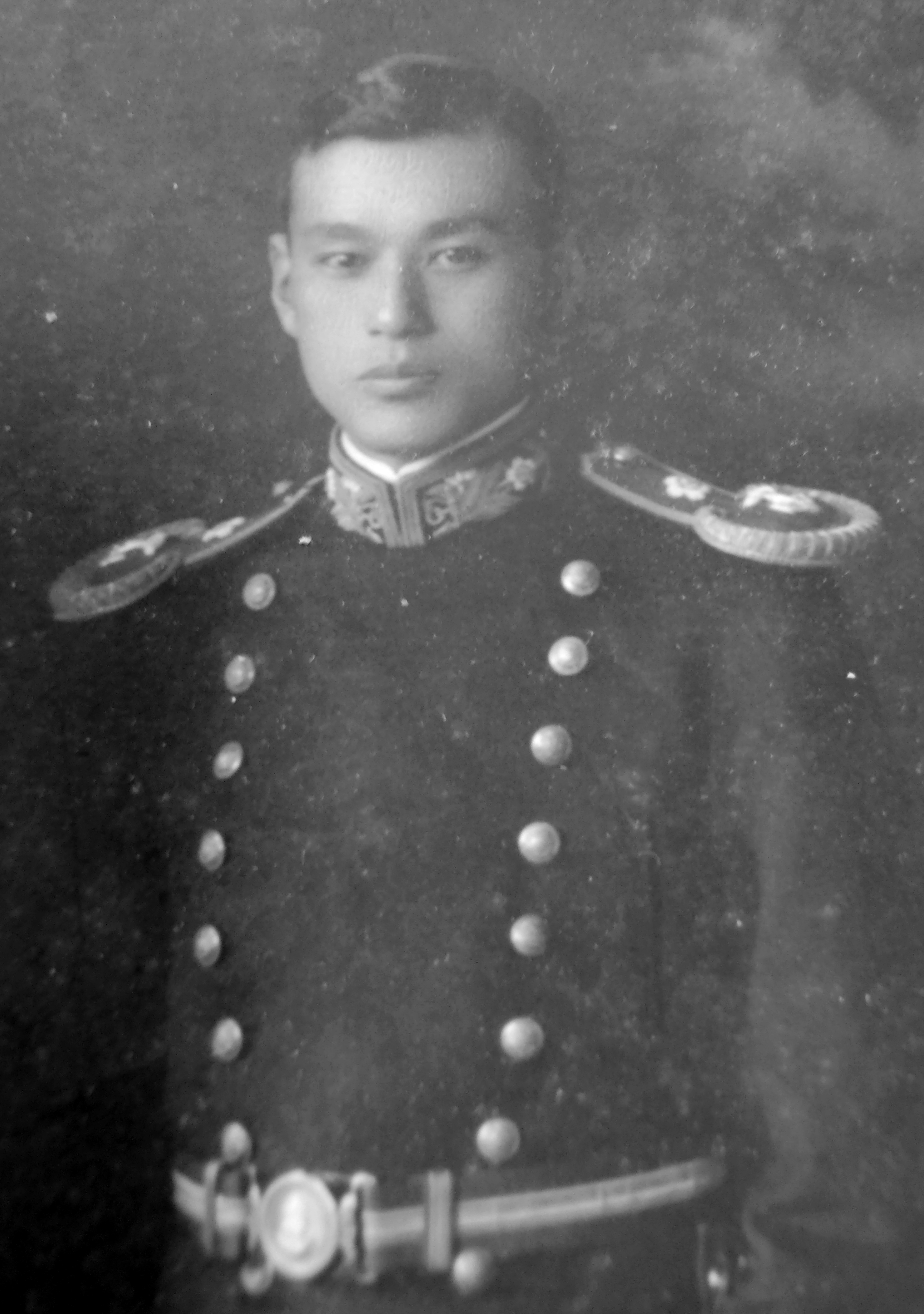 Picture of Seiji Naruse